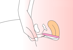 Diagram of woman inserting menstrual cup